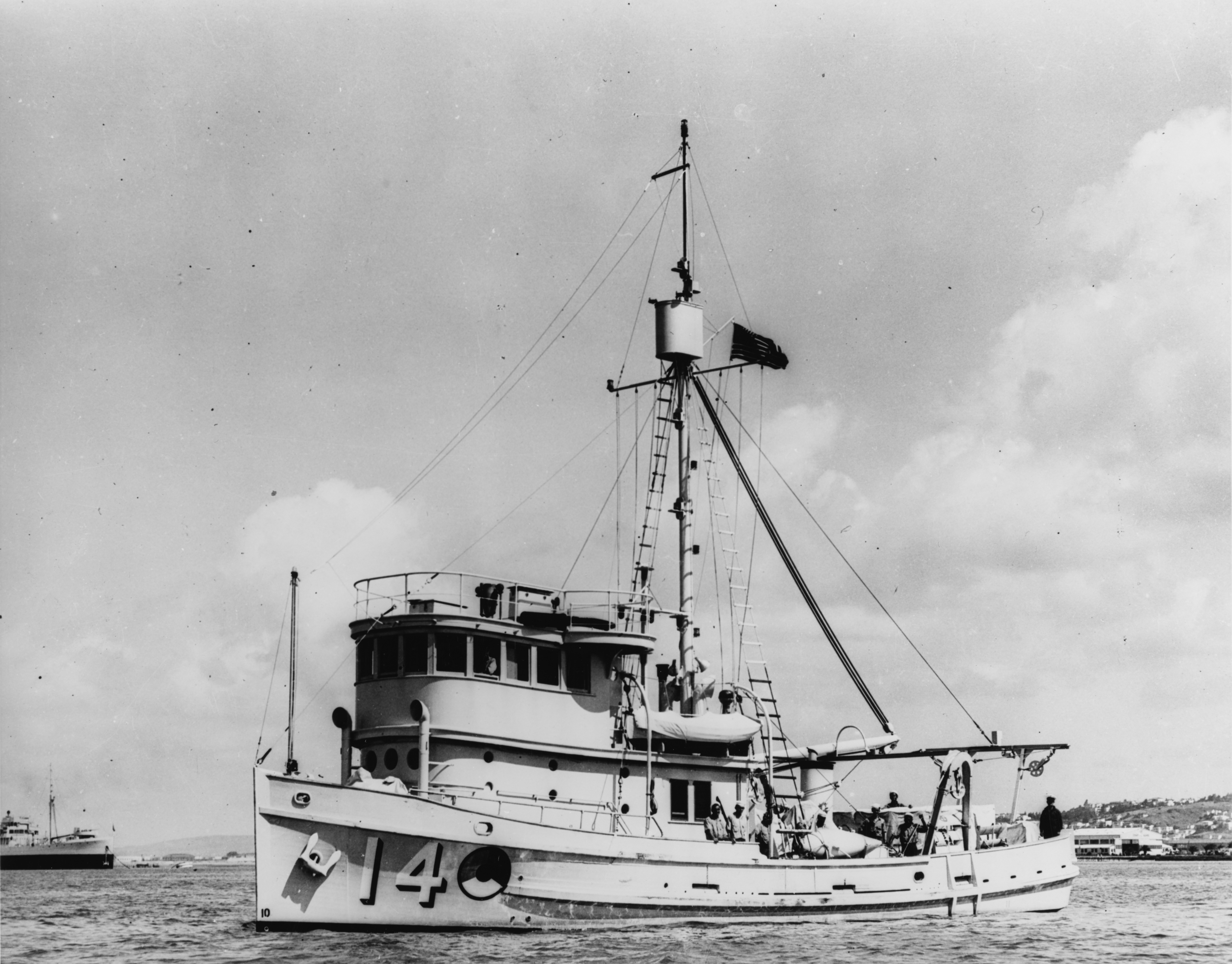 Photographed in 1941, probably off San Diego, California. Photograph from the Bureau of Ships Collection in the U.S. National Archives.